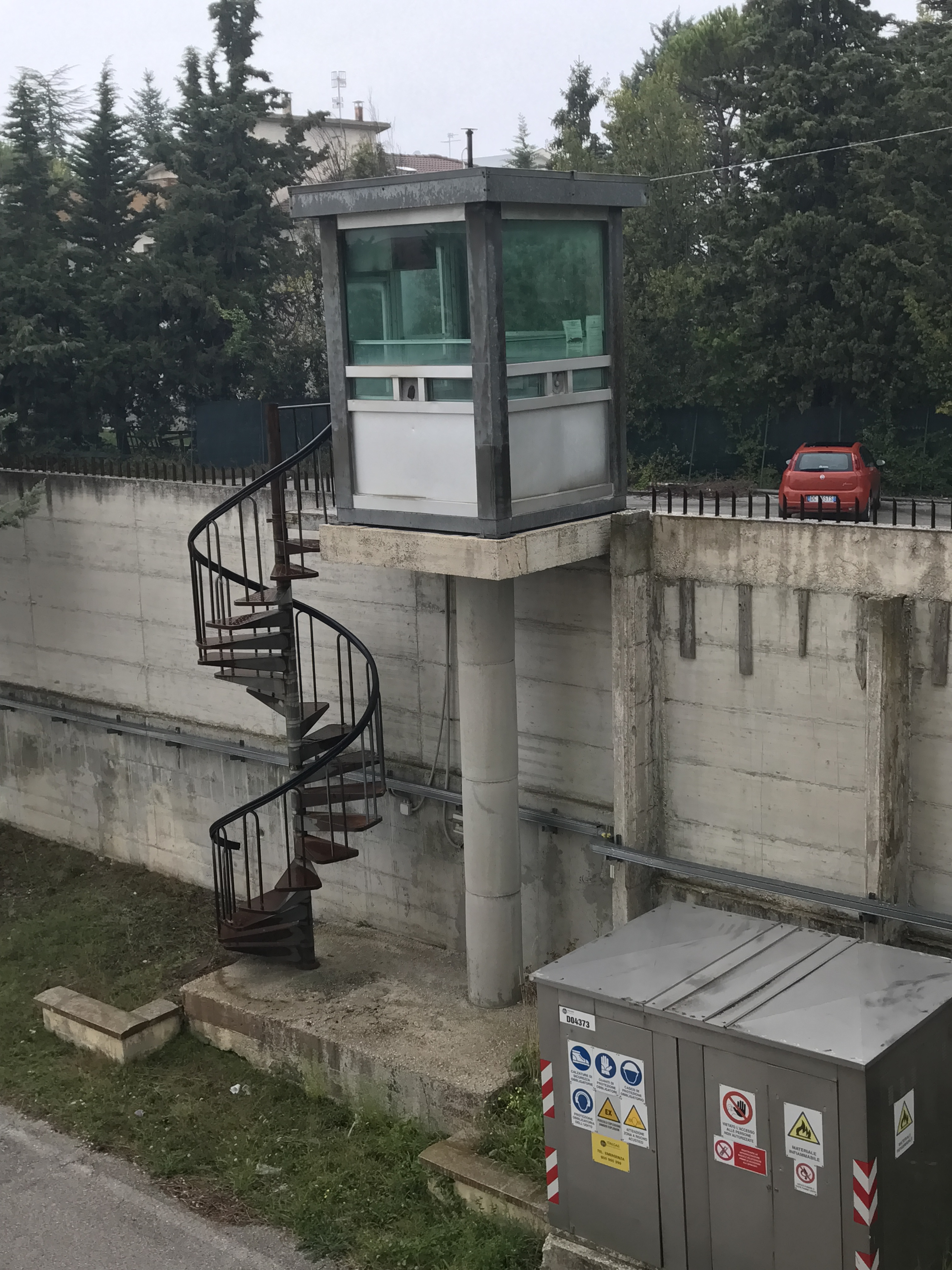 Modern Bartizan of an italian Barrack.